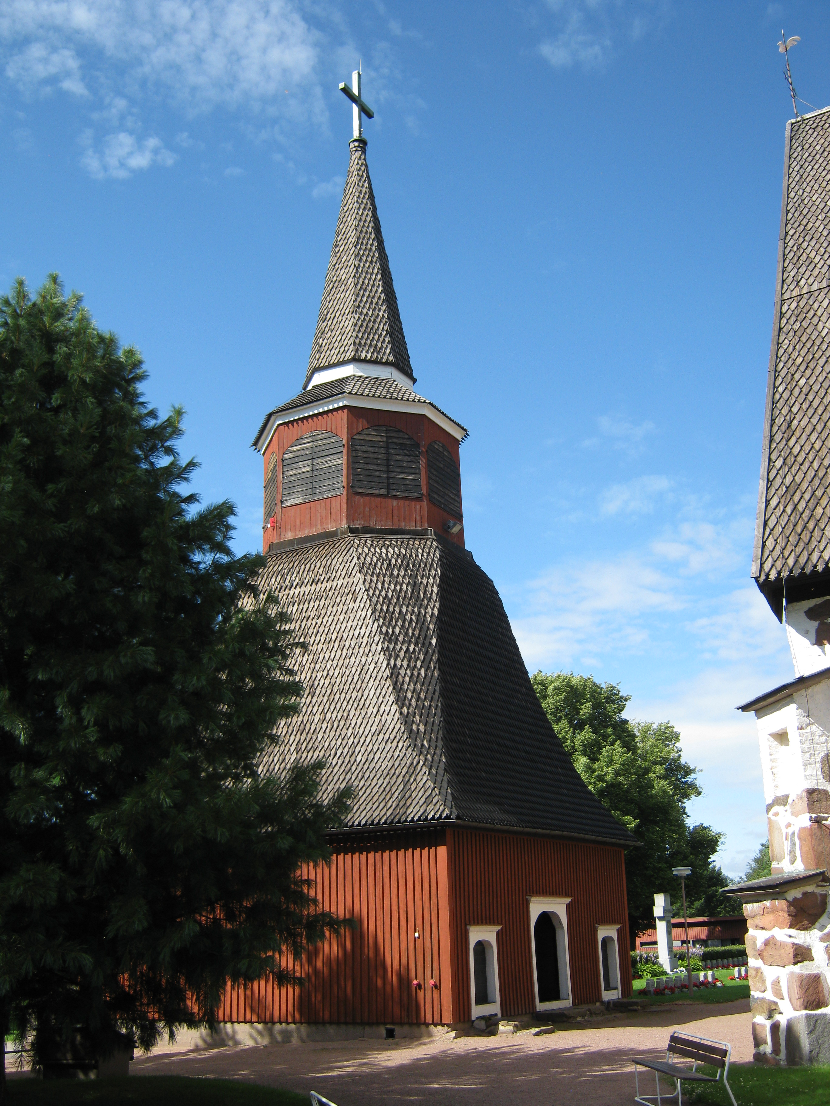 Bell tower of the medieval St. Olaf's Church, Ulvila, Finland.